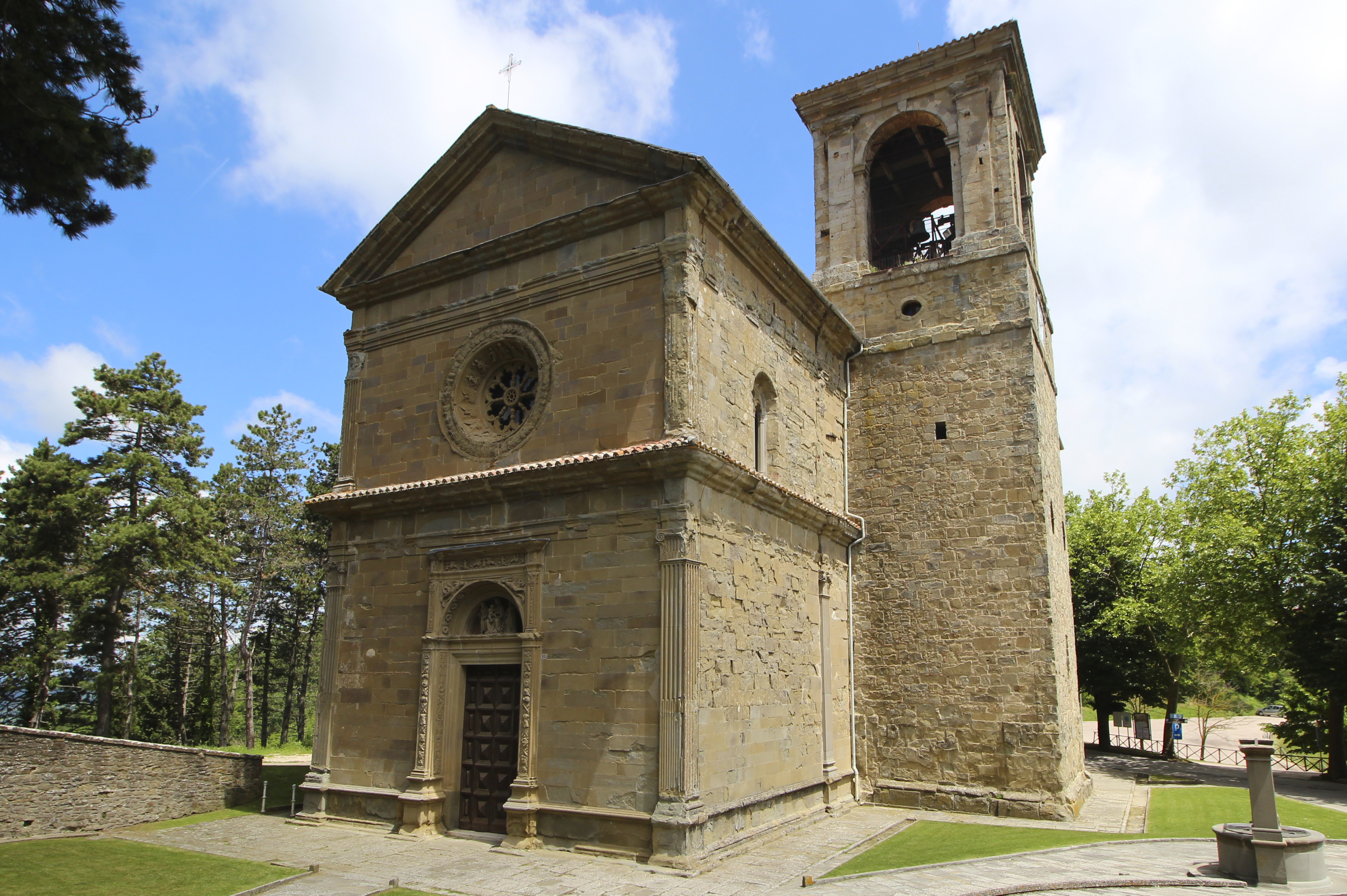 Church/Sanctuary Madonna dei Miracoli, Castel Rigone, hamlet of Passignano sul Trasimeno, Province of Perugia, Umbria, Italy